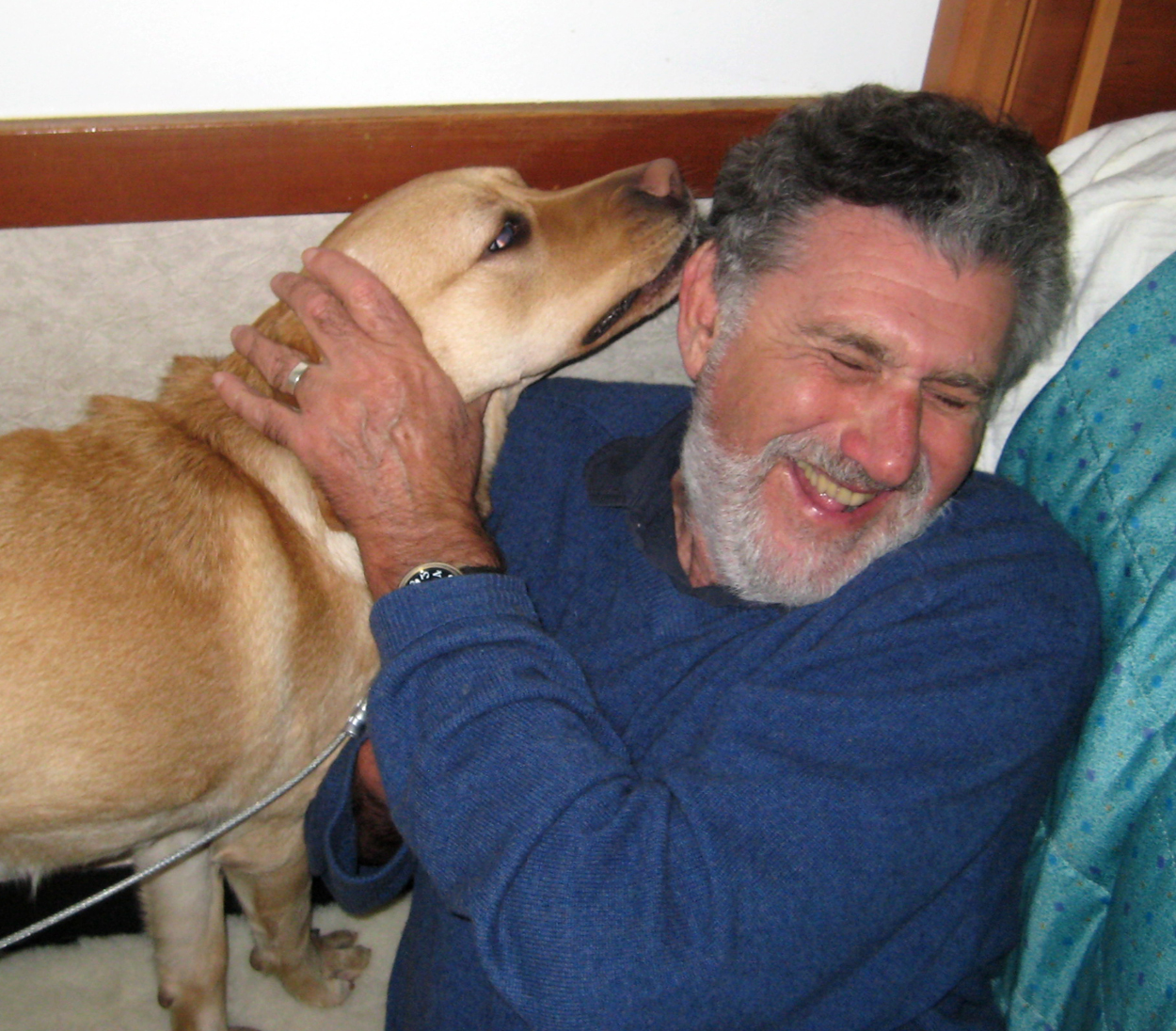 The social psychologist Elliot Aronson, with his guide dog named Desi-Lu, photographed by his wife Vera.